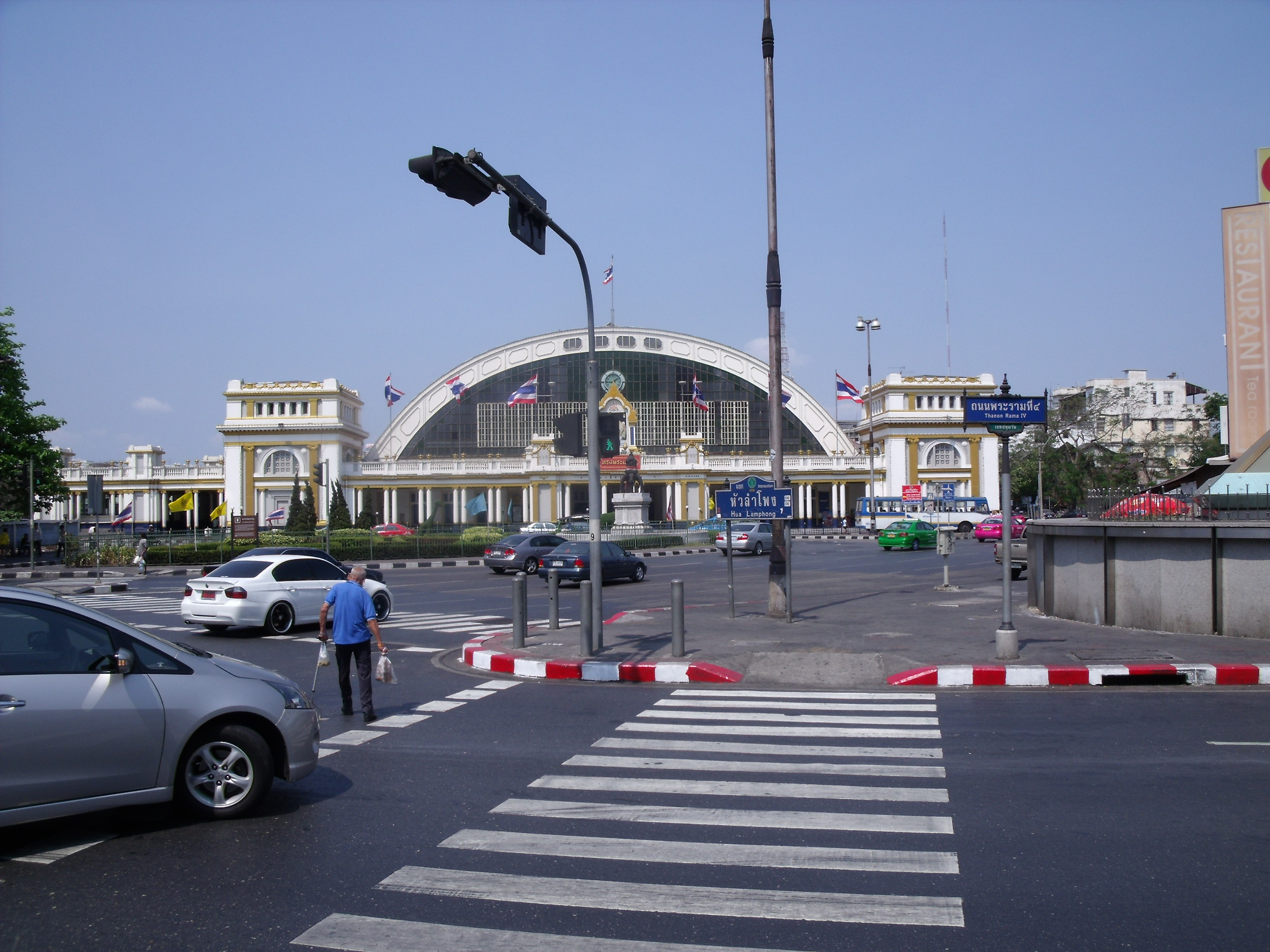 I took a picture of Hua Lamphong Railway Station when holidaying in Bangkok, Thailand.